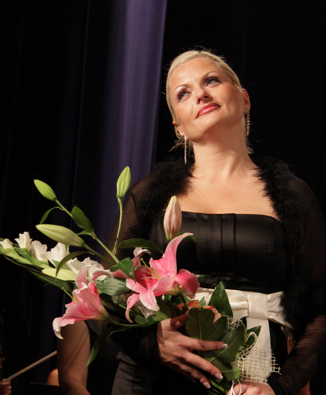 Eliza Kruszczyńska - Polish opera singer, soprano. Busko-Zdroj, 7 July 2012